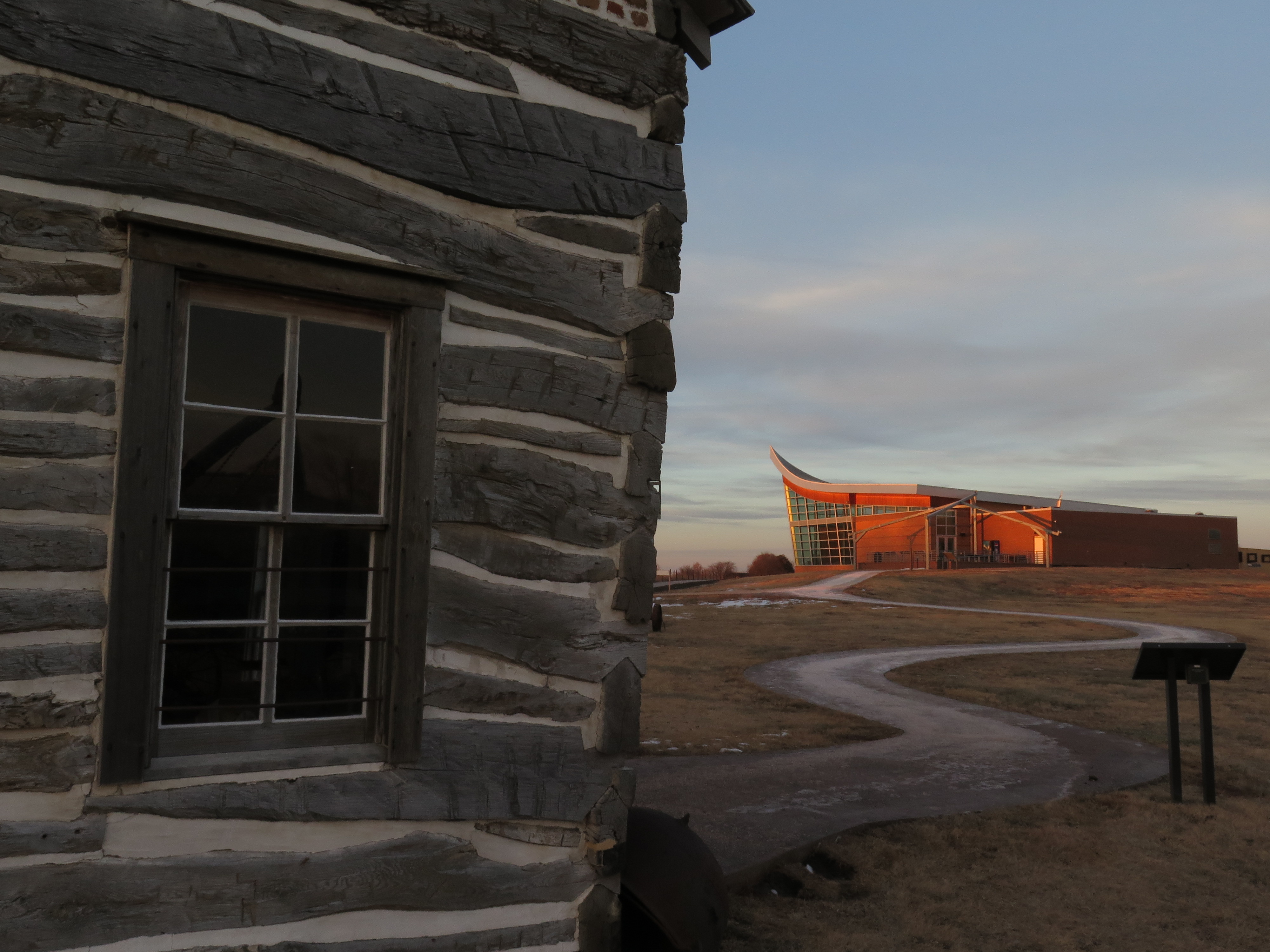 A view of the Homestead Heritage Center from the historic Palmer-Epard Cabin which sit just outside the Heritage Center.